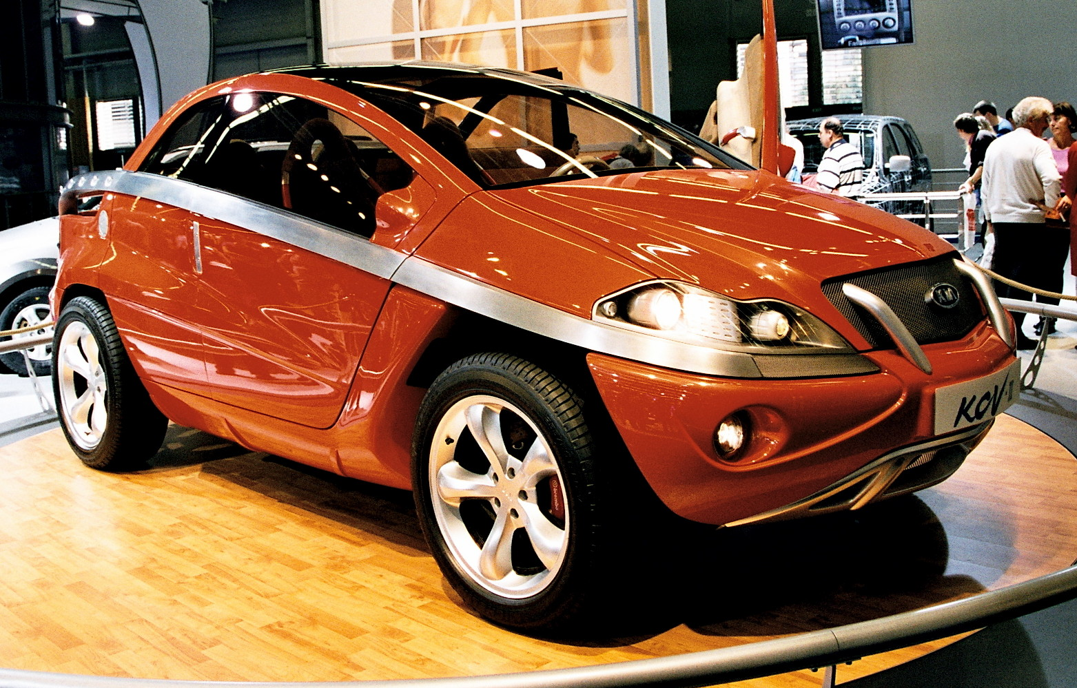 Kia KCV-II concept SUV at Salon de l'auto 2002, Paris.